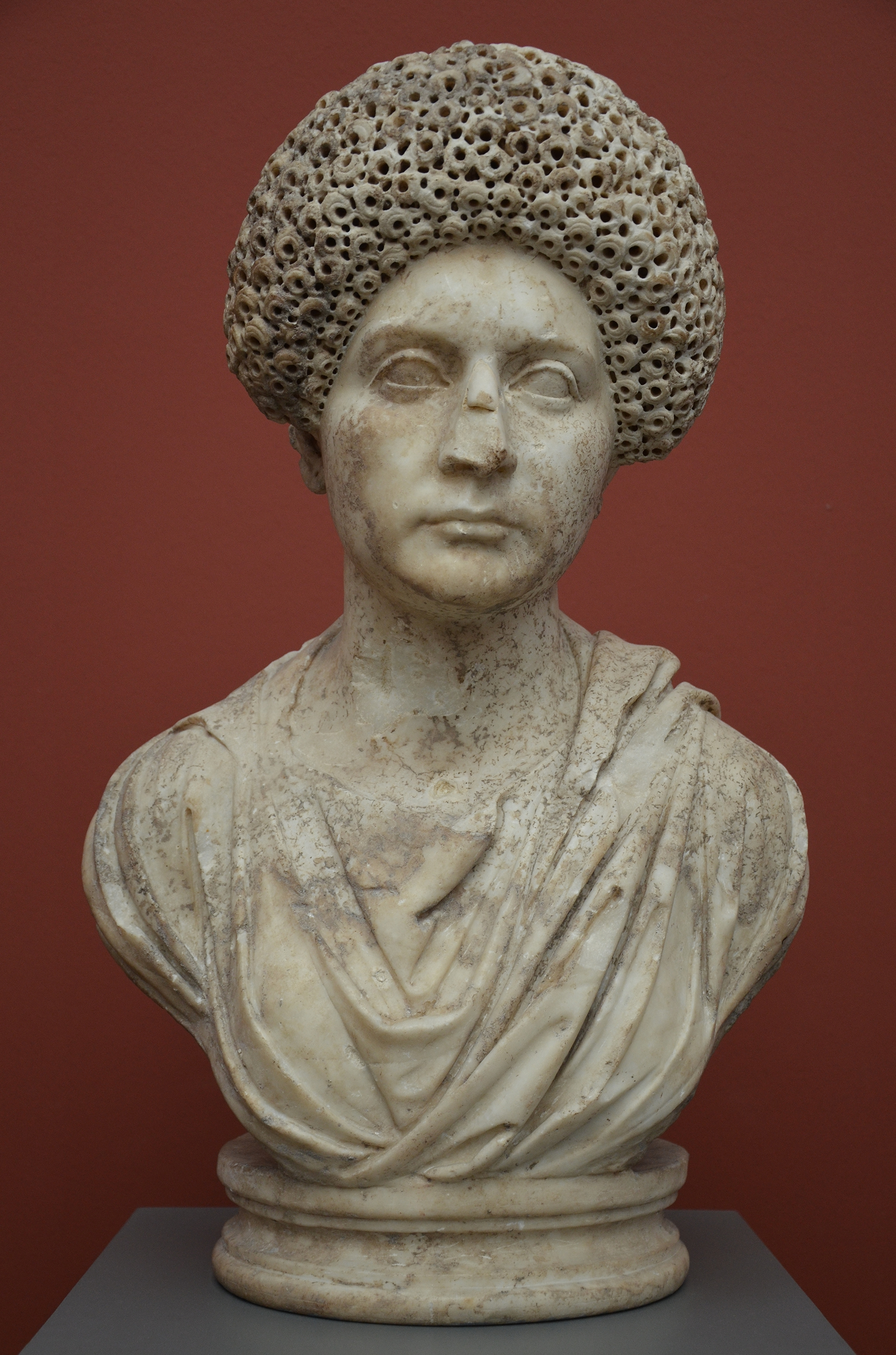 A Roman lady, from Rome, c. AD 69-96, Ny Carlsberg Glyptotek, Copenhagen